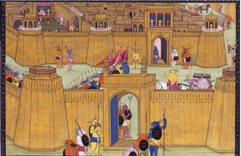 A folio from The Ramayana: The golden abode of King Ravana India, Kangra, circa 1775-80 Depicting Ravana's luxurious golden palace with his demon armies ready for battle, the ten-headed king shown twice, once in a pavilion in the upper left and again in a chariot inside the palace walls at middle right, the forlorn Sita shown standing in an arched window in the distant background at center, all surrounded by a floral blue border and pink borders Opaque pigments and gold on wasli 8½ x 12½ in. (21.5 x 31.7 cm.), image